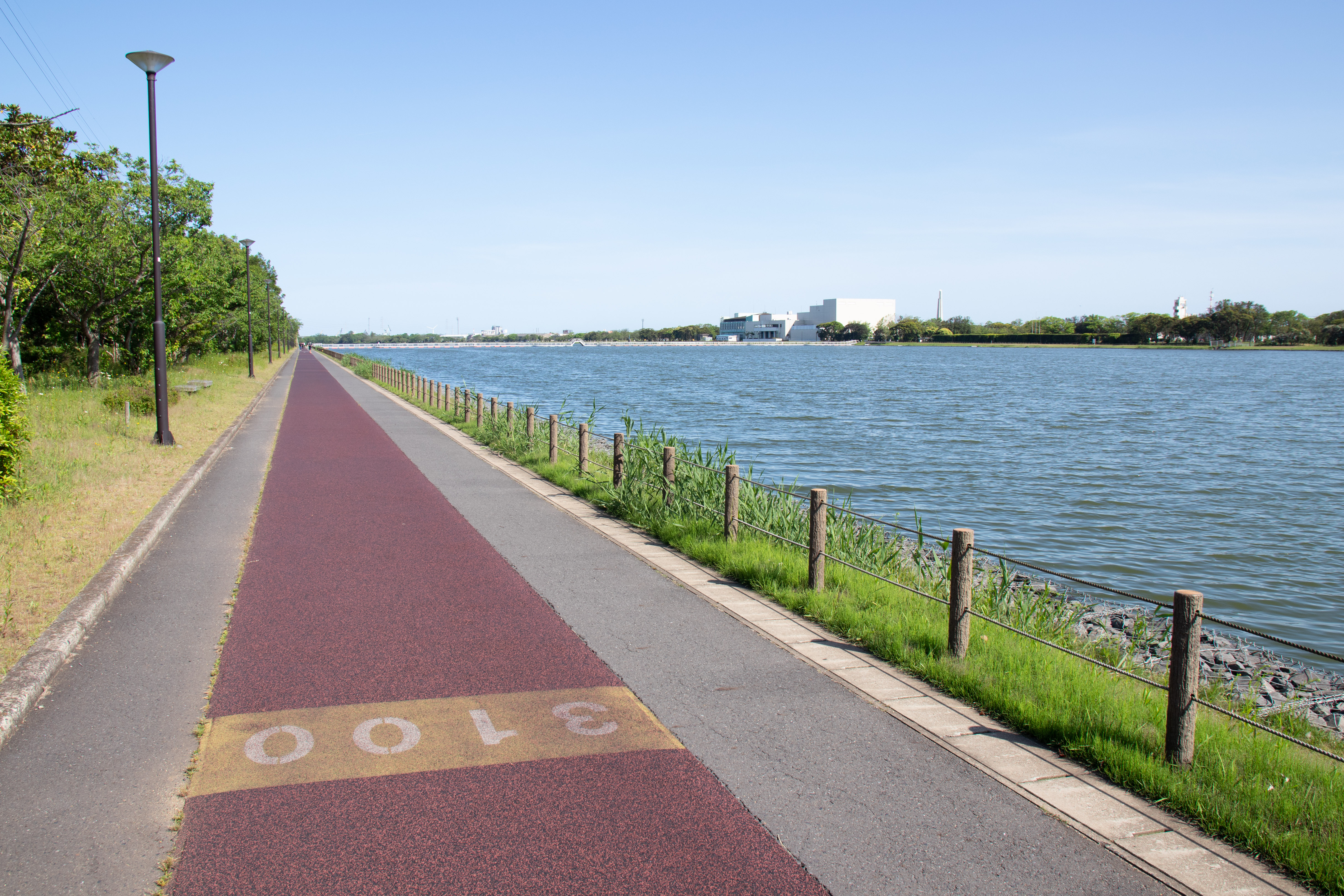 Gōnoike Ryokuchi Park in Kamisu City, Ibaraki, Japan Canon EOS 80D + Sigma 17-70mm F2.8-4 DC Macro OS HSM